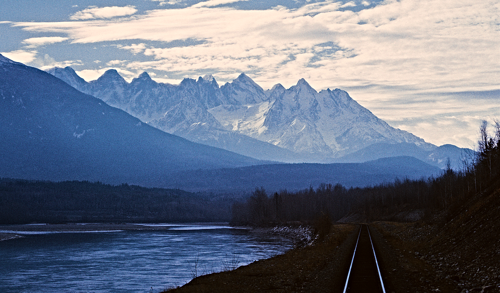 Seven Sisters Peaks, Orion Peak, Skeena River seen from CN train in October 1971.